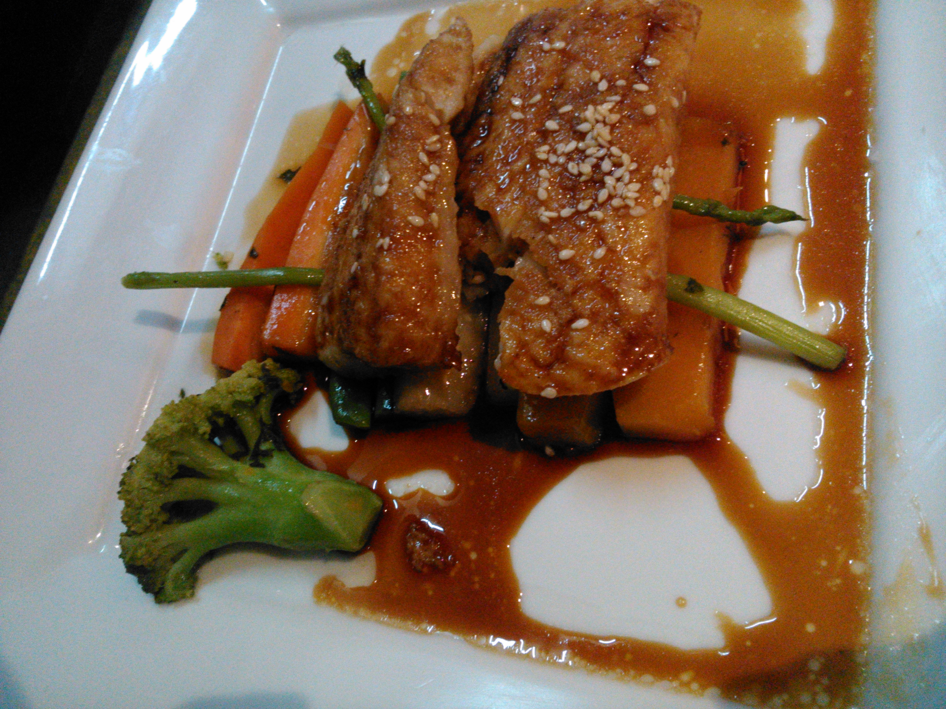 Fish in Teriyaki Sauce with Steamed Vegetable.